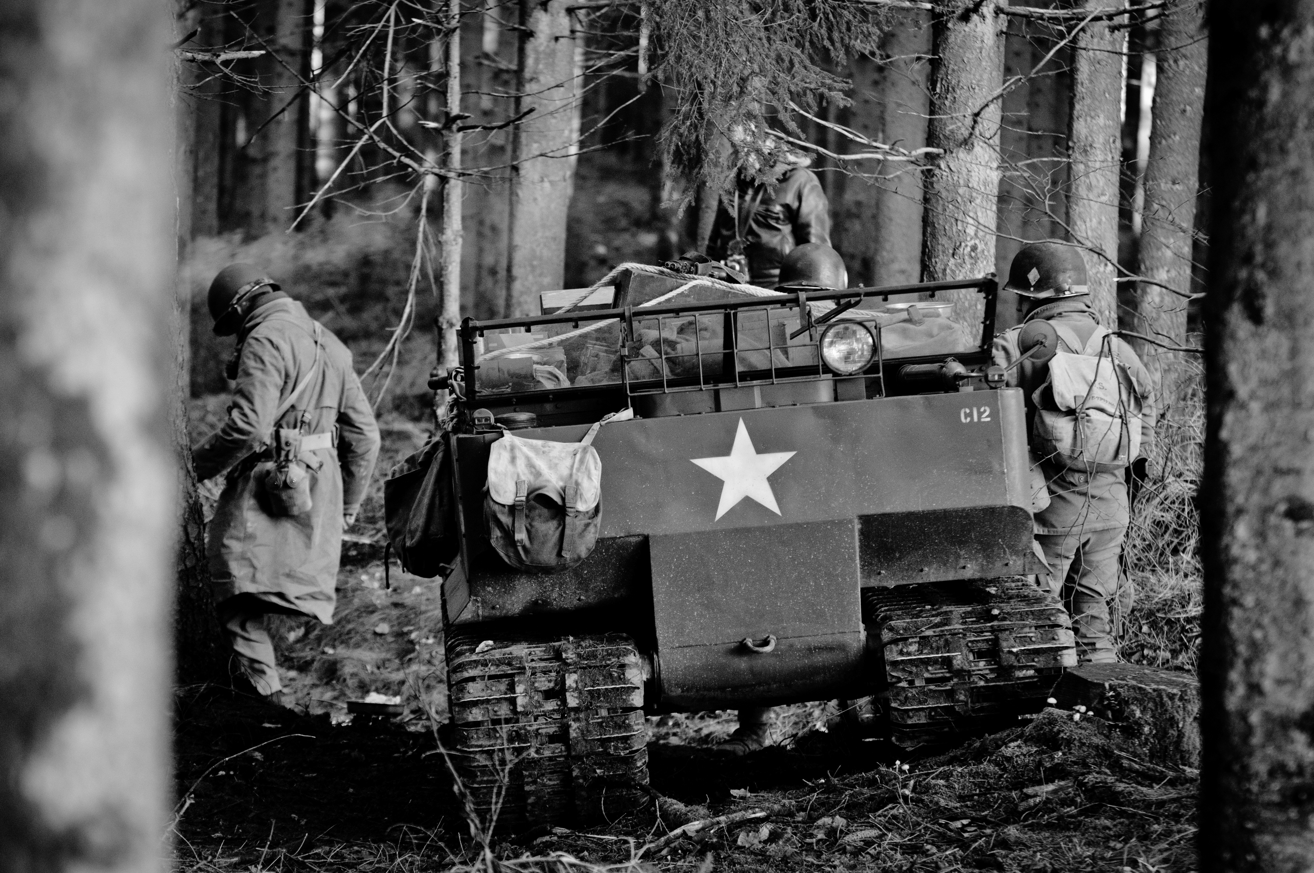 M29 Weasel in the woods, between Recogne and Cobru